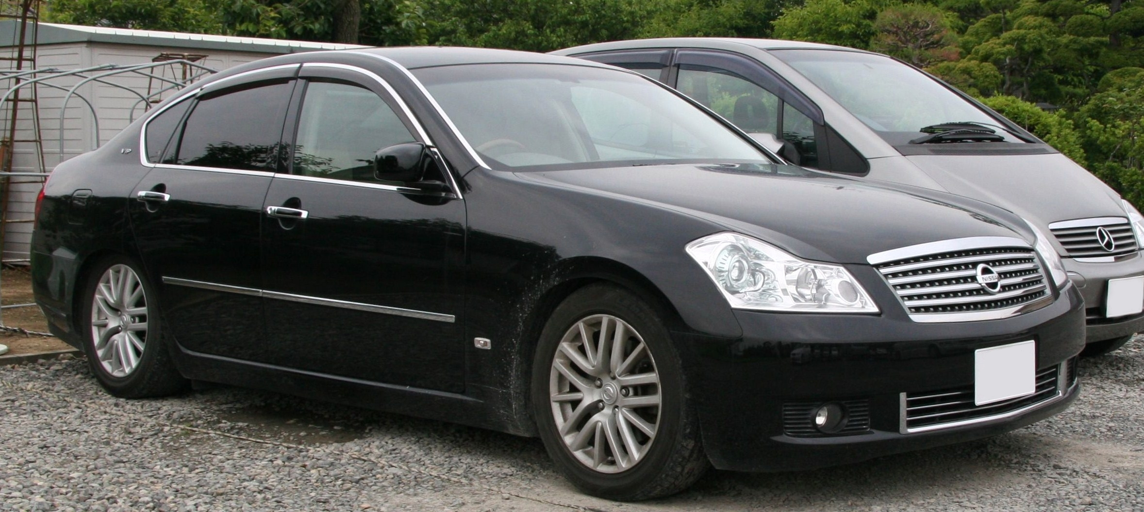 NISSAN FUGA 350XV VIP